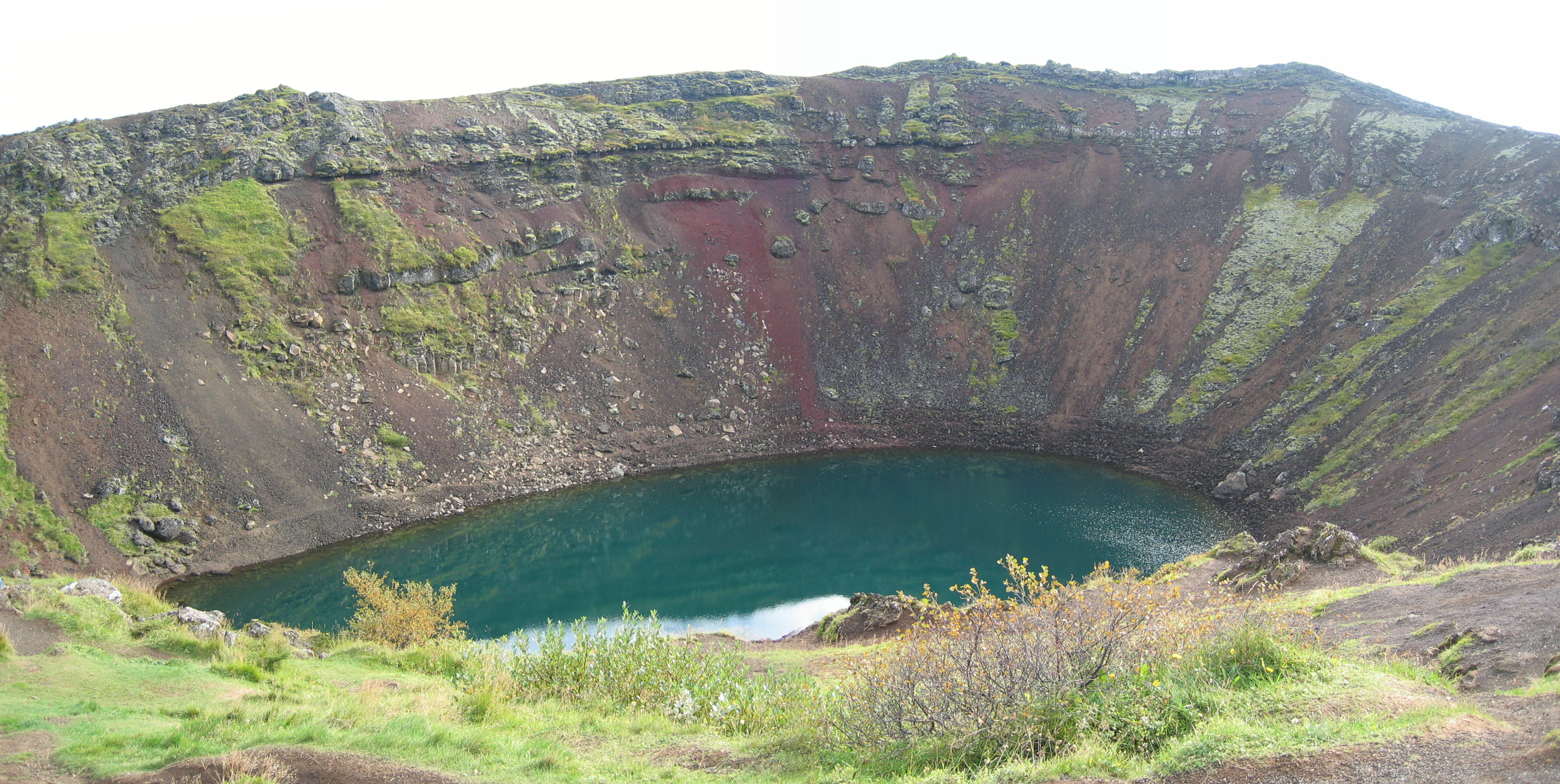 Kerið Grímsnesi photo by Salvor Gissurardottir September 2006 two photos stiched together